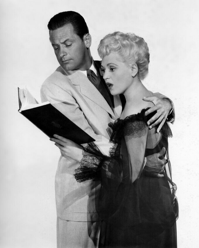 Publicity photo of William Holden and Judy Holliday for Born Yesterday